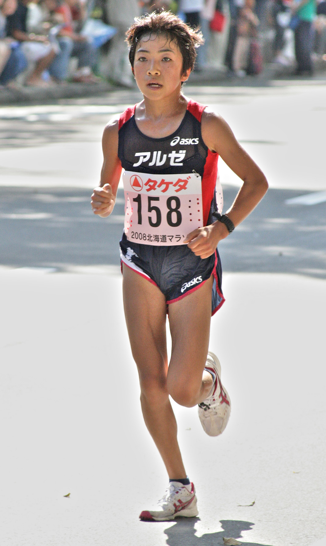 Yukari Sahaku (2008 Hokkaido Marathon)